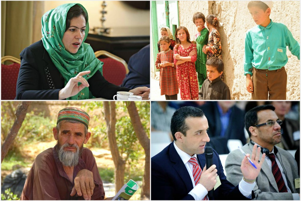 Collage of images showing people who are labelled as Tajiks of Afghanistan. They make up the largest ethnic group in Tajikistan and the second largest in both neighboring Afghanistan and Uzbekistan.